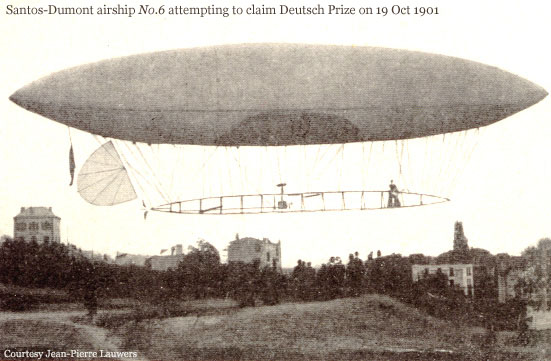 Alberto Santos Dumont Airship N° 6 in 1901, Coteaux de Longchamps.